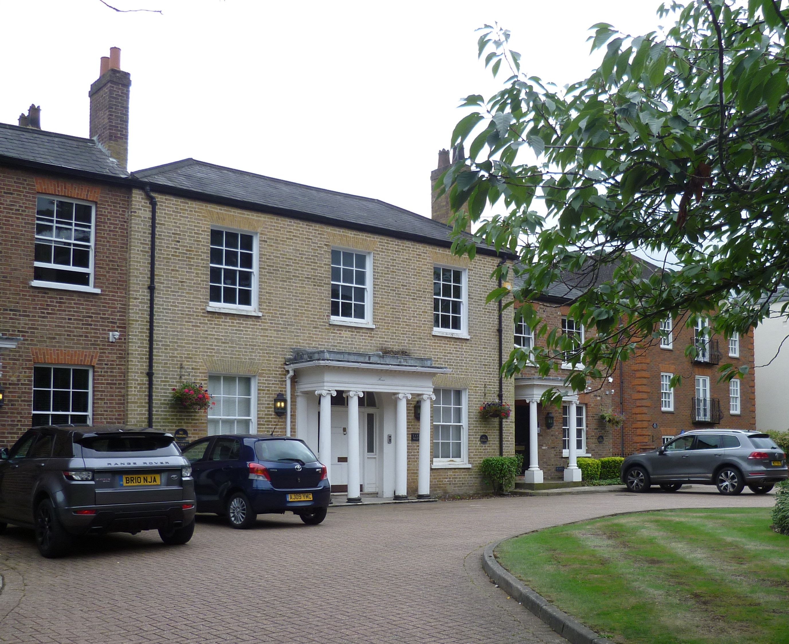 53 Wood Street, Chipping Barnet